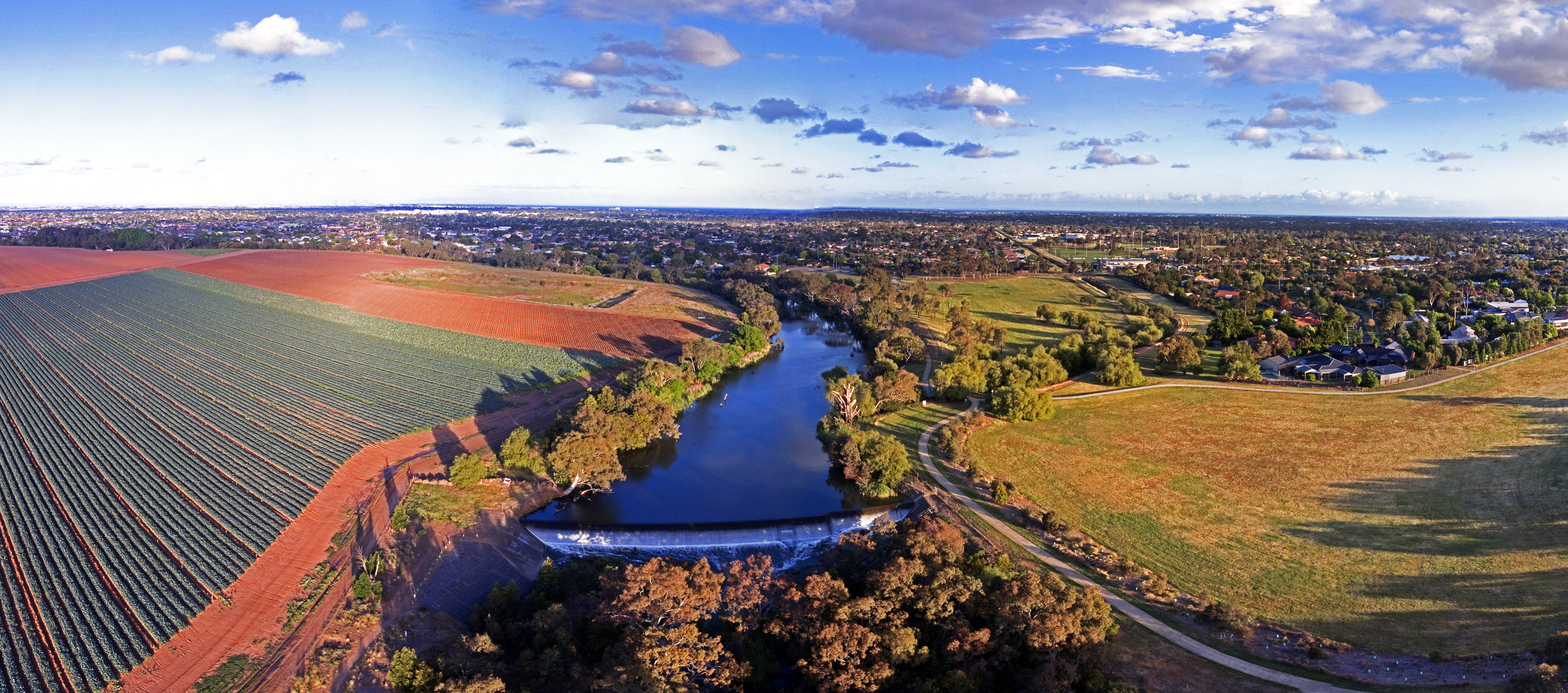 Aerial panorama of Werribee River Spring 2017 near the Riverbed Historic Park - where pasture meets suburban sprawl